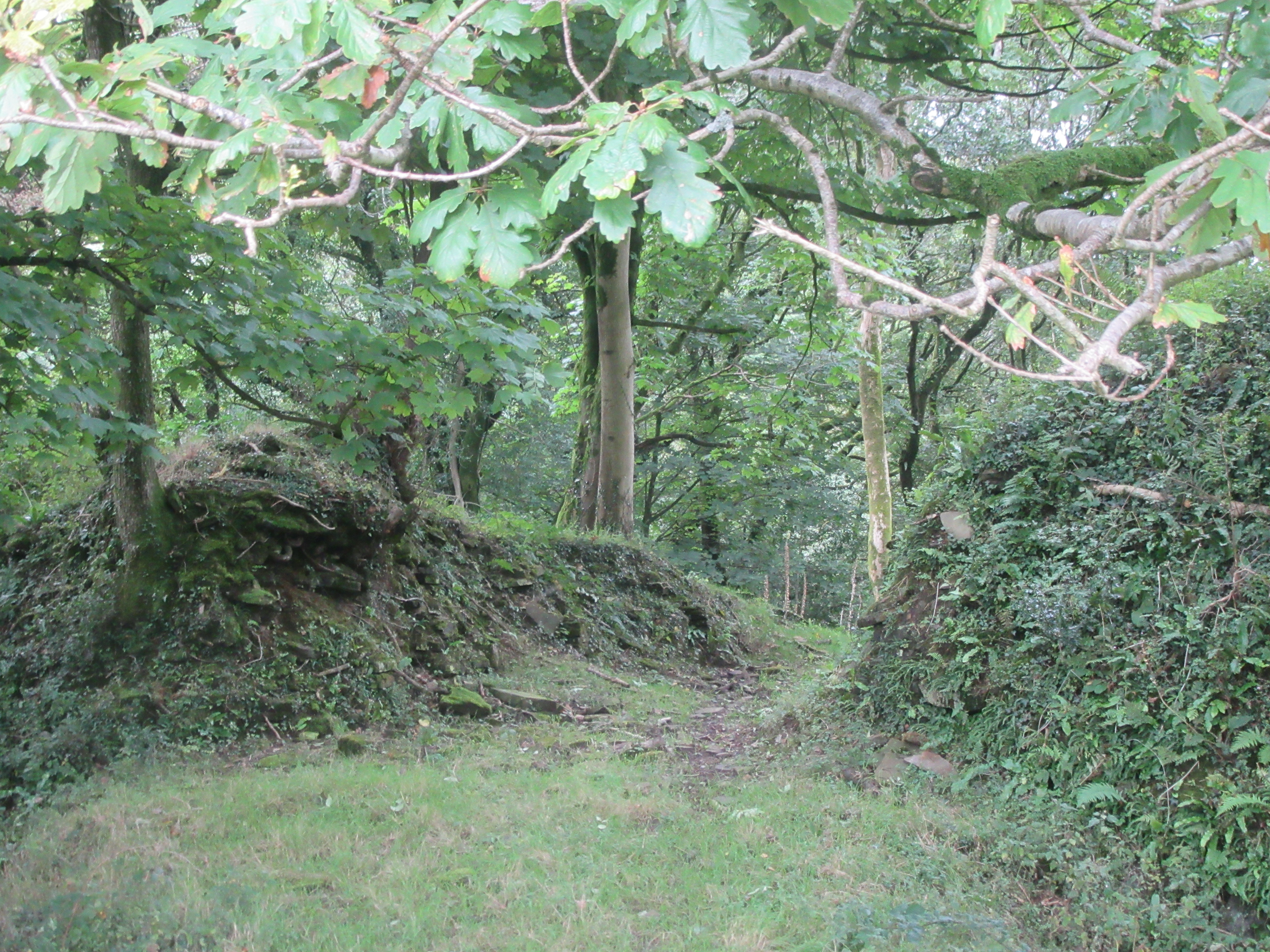 The north eastern approach to Llangynywyd Castle. The ruins of the entrance to the curtain wall can be seen. Taken August 2017.